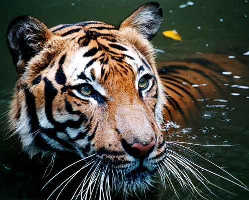 Malayan Tiger